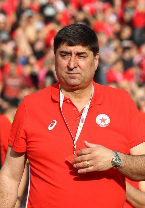 Borislav Kiossev - former Bulgarian volleyball player, national player